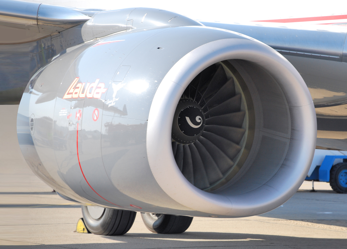 CFM International CFM56-7B engine of Lauda Air Boeing 737-800 OE-LNT